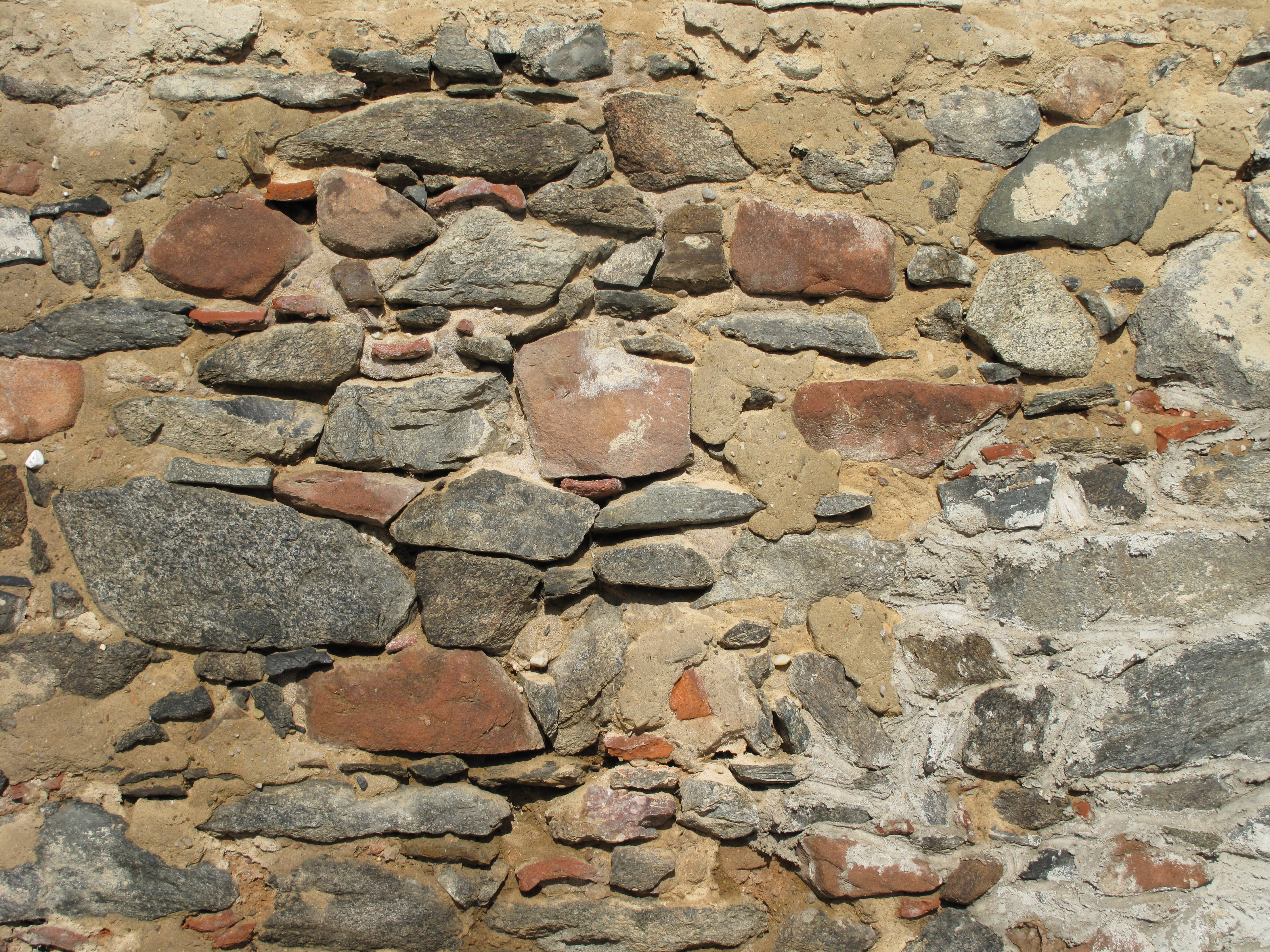 Wall of ossuary in detail, Kostelní Střimelice village (Stříbrná Skalice), Prague-East District, Czech Republic. This photograph was taken within the scope of the 'Czech Municipalities Photographs' grant.